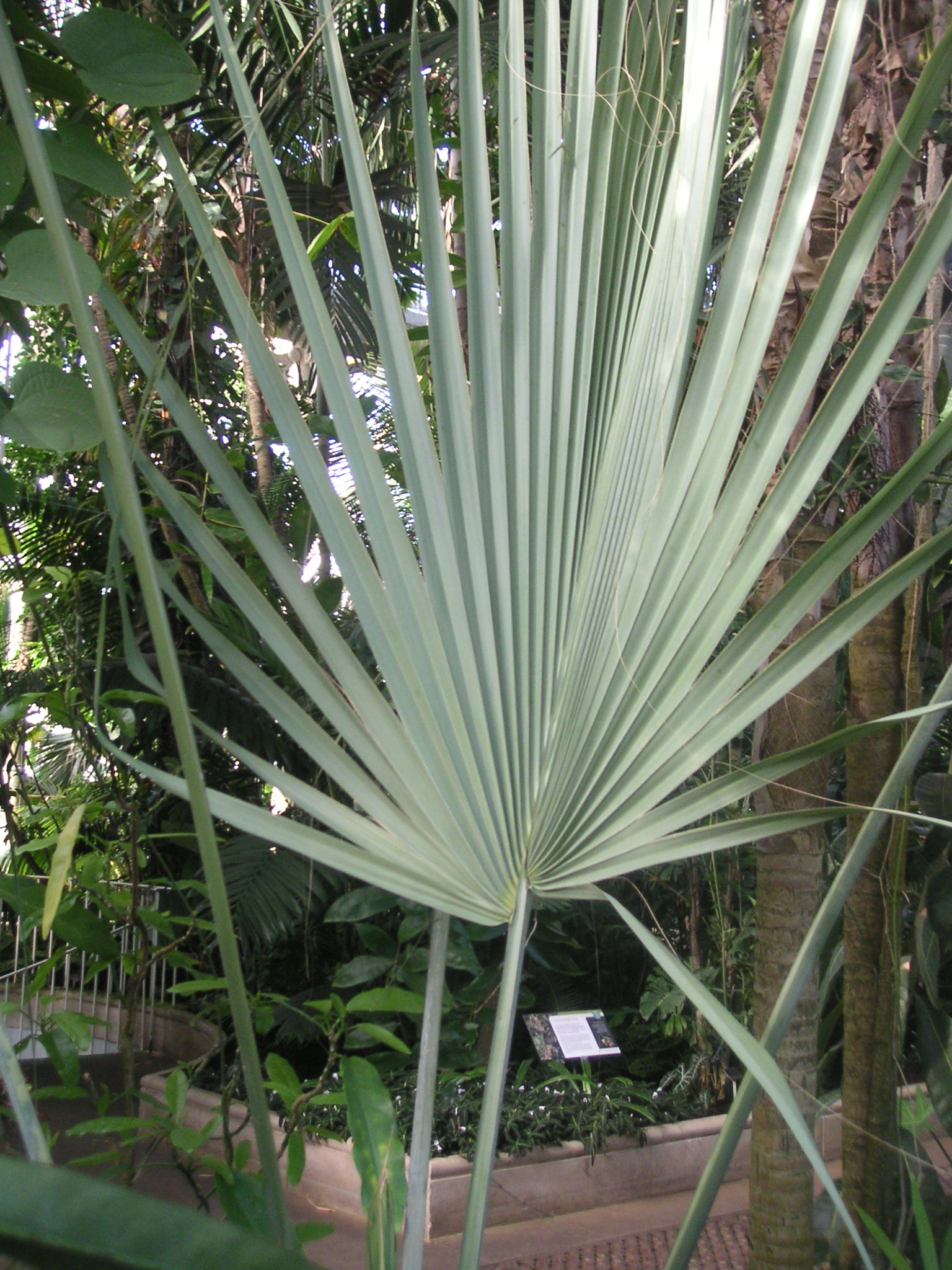 Sabal uresana, leaf, at Kew Gardens, London, UK